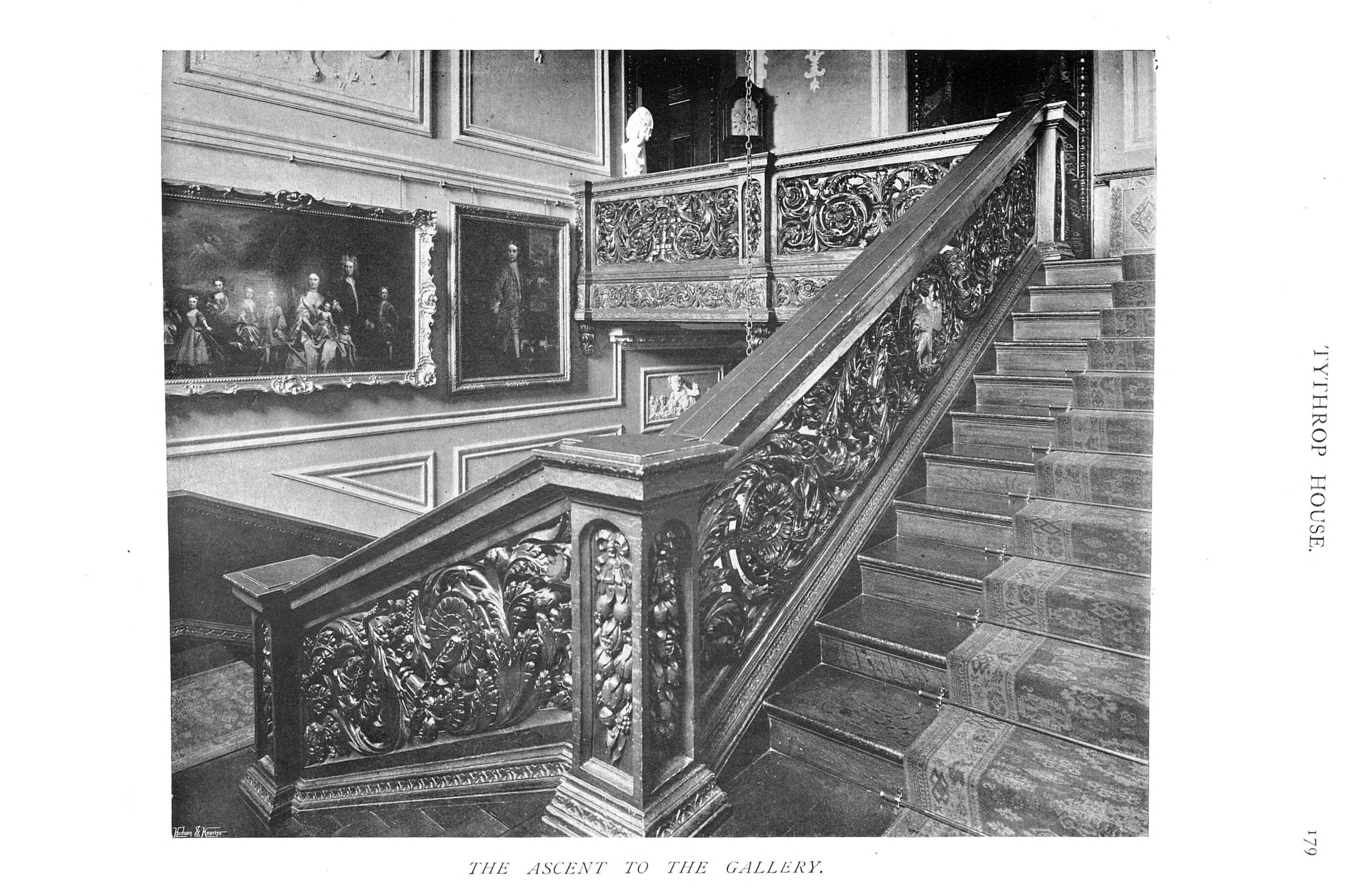 Tythrop House Kingsey the ascent to the gallery. From In English Homes. Full text of the book is available at the Internet Archive: Volume 1; Volume 2; Volume 3.